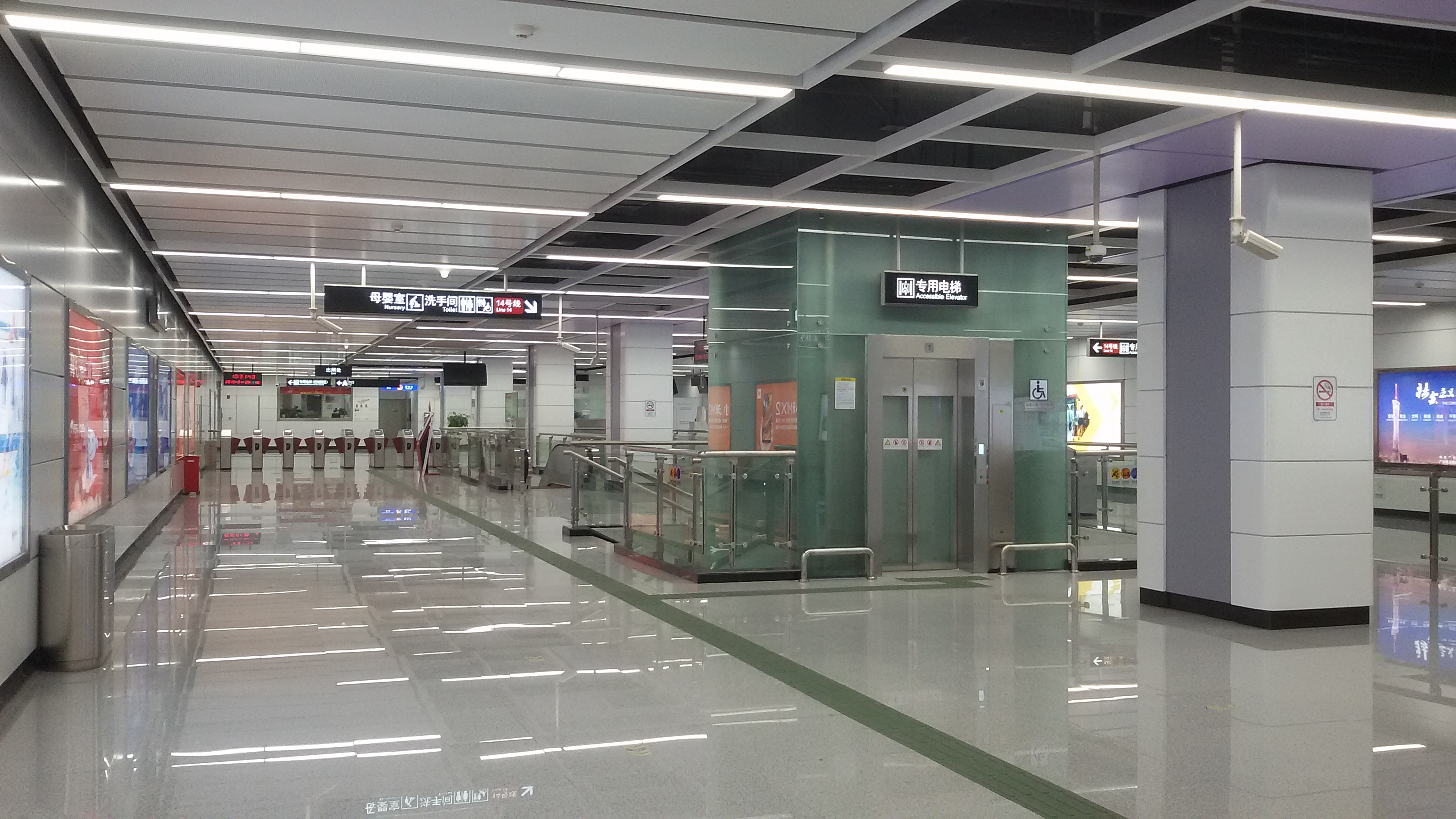 Station Concourse for Fengxia Station in Guangzhou Metro.